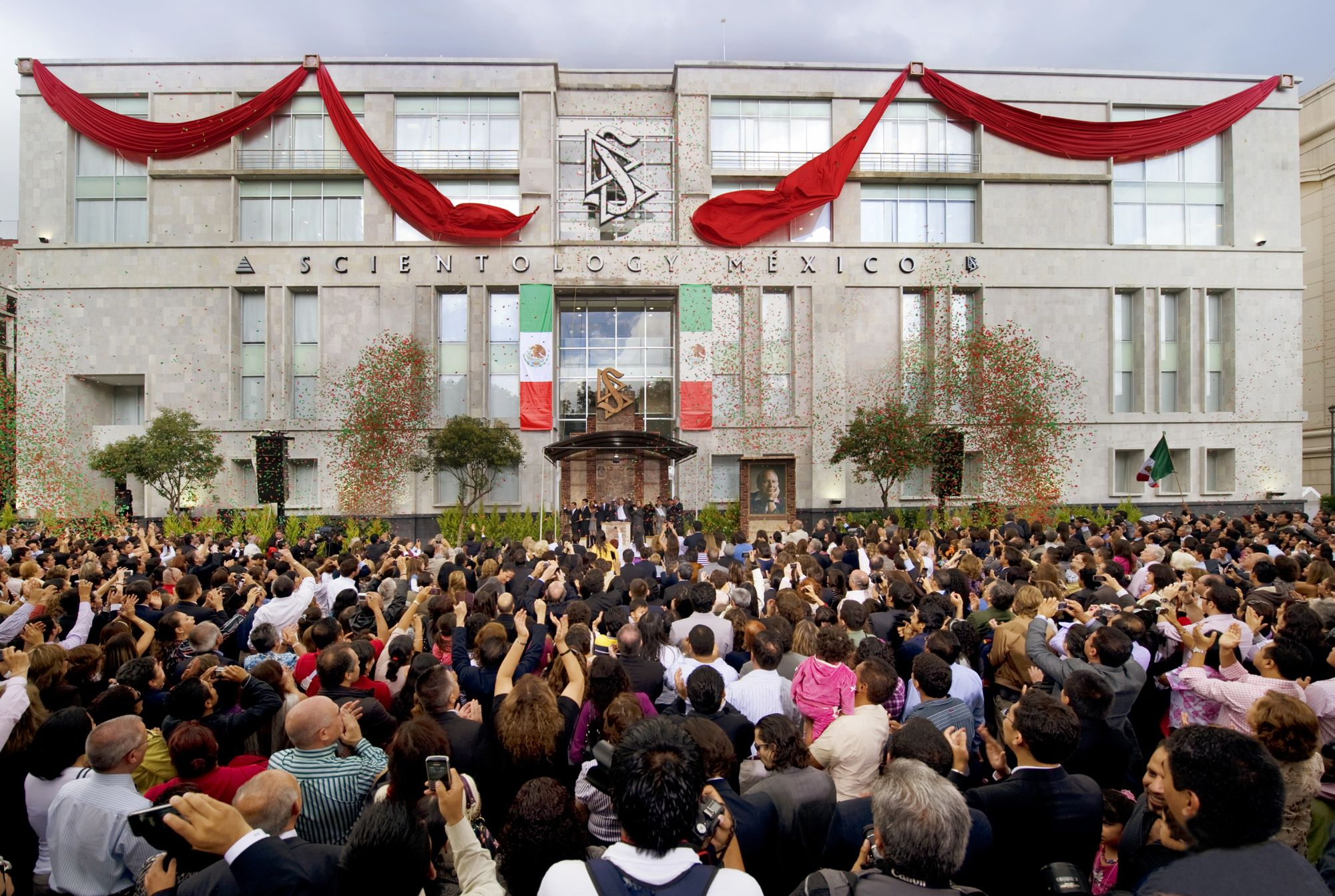 Opened 10 July 2010